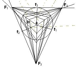 position of the vanishing point of the diagonal of a cube